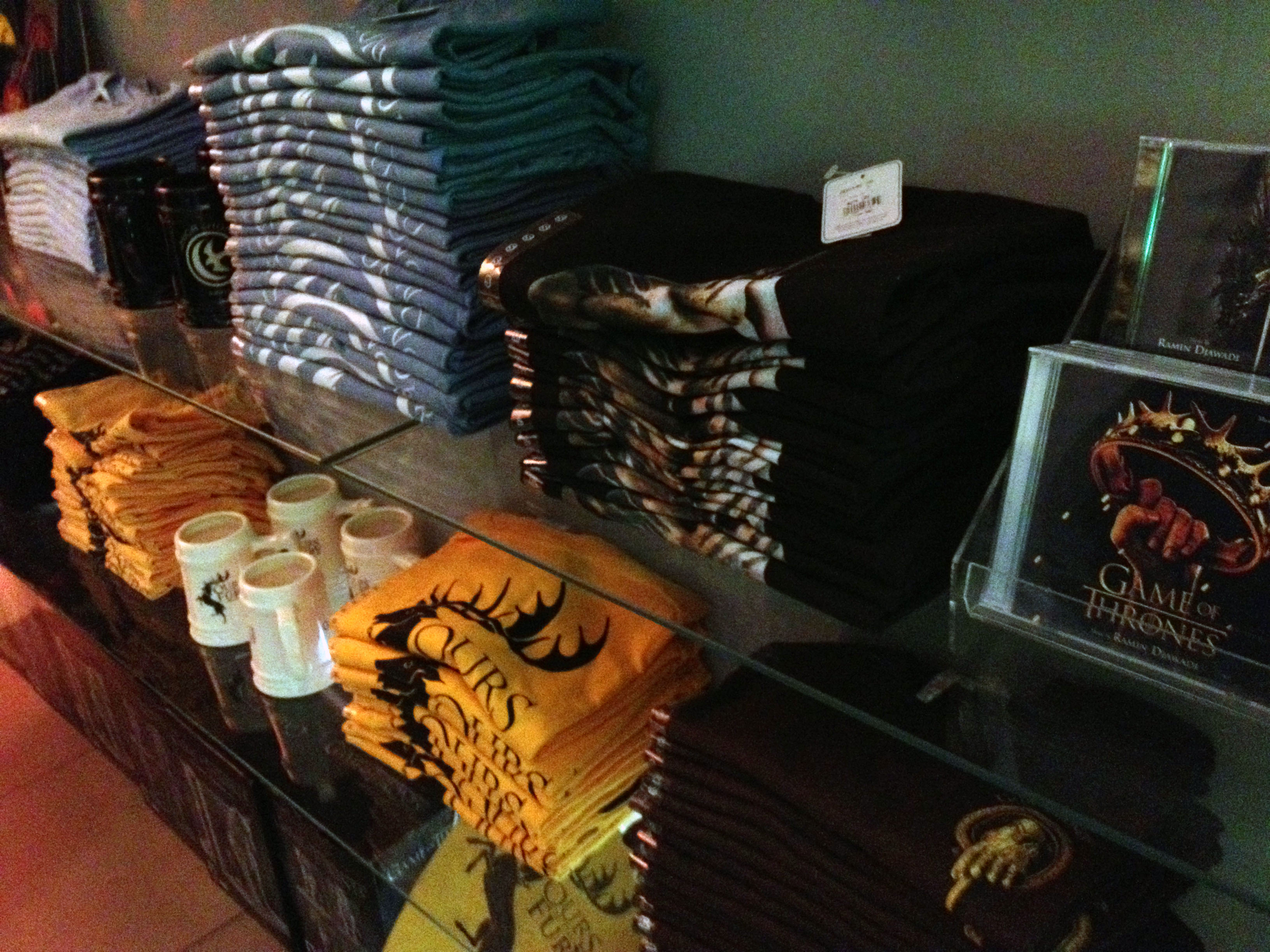 A selection of merchandise for the TV series Game of Thrones sold in HBO's New York City shop.